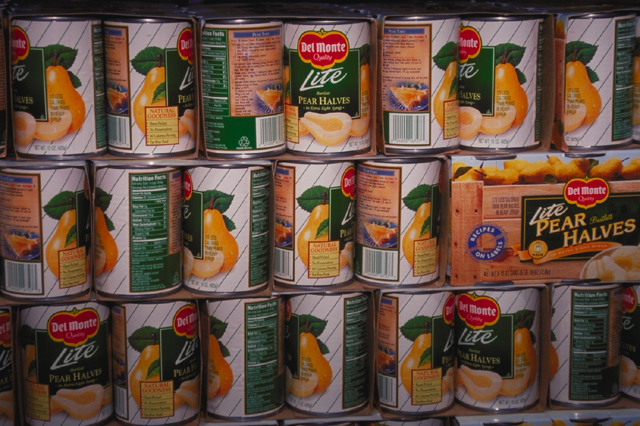 Del Monte canned pear halves, in a wholesale club in Virginia.